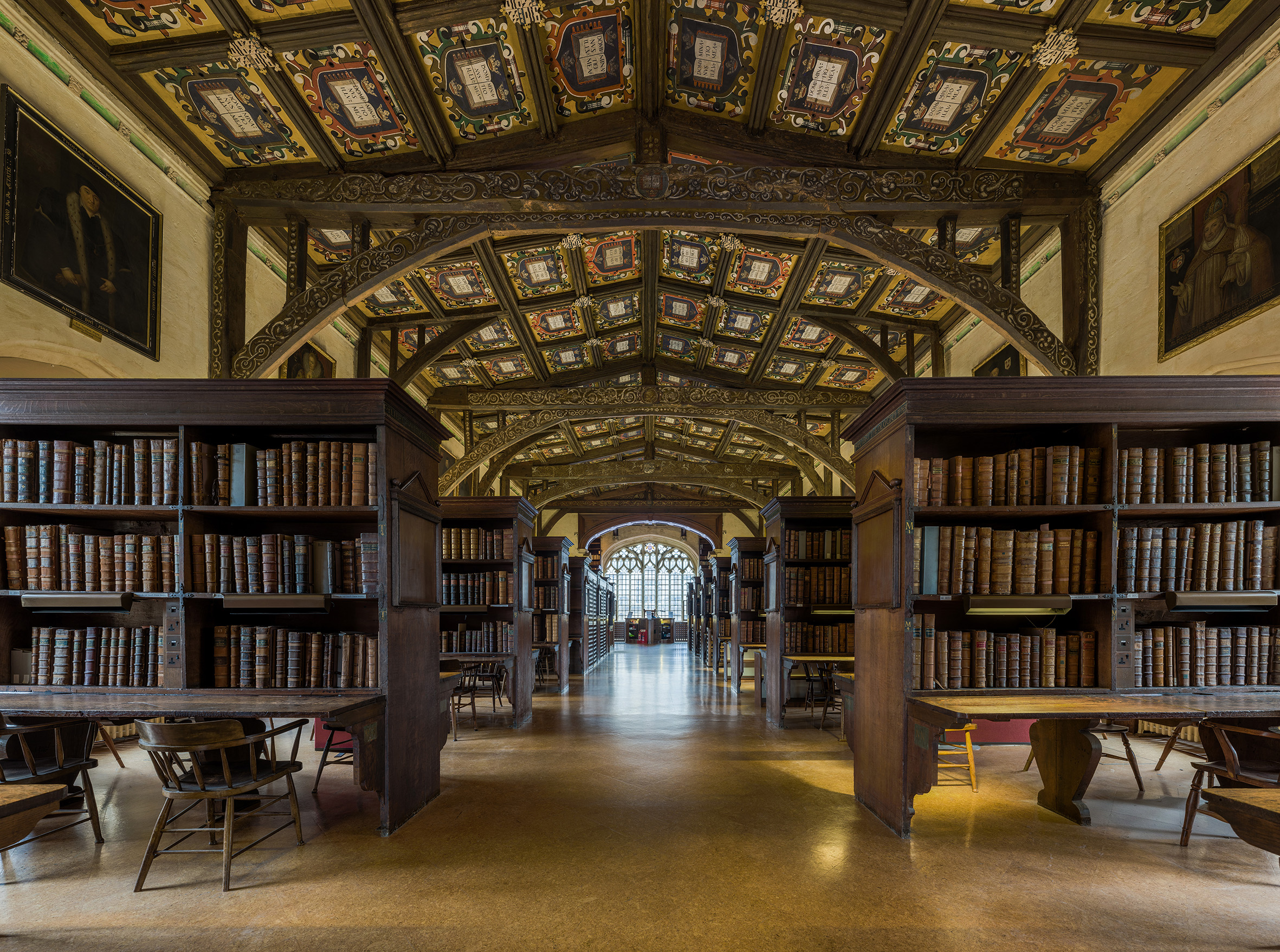 The interior of Duke Humphrey's Library, the oldest reading room of the Bodleian Library in the University of Oxford.